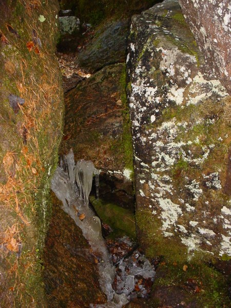 Eppan Ice Holes, near Eppan/Appiano (South Tyrol, Italy): Interior of an ice hole.